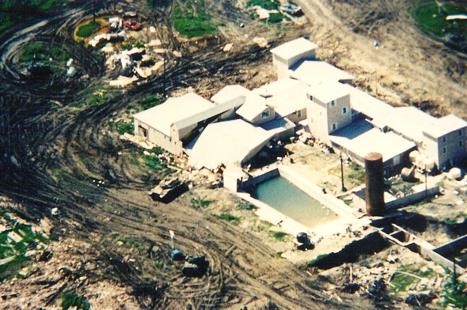 Tank brings down the back wall and roof of the Mount Carmel gymnasium.